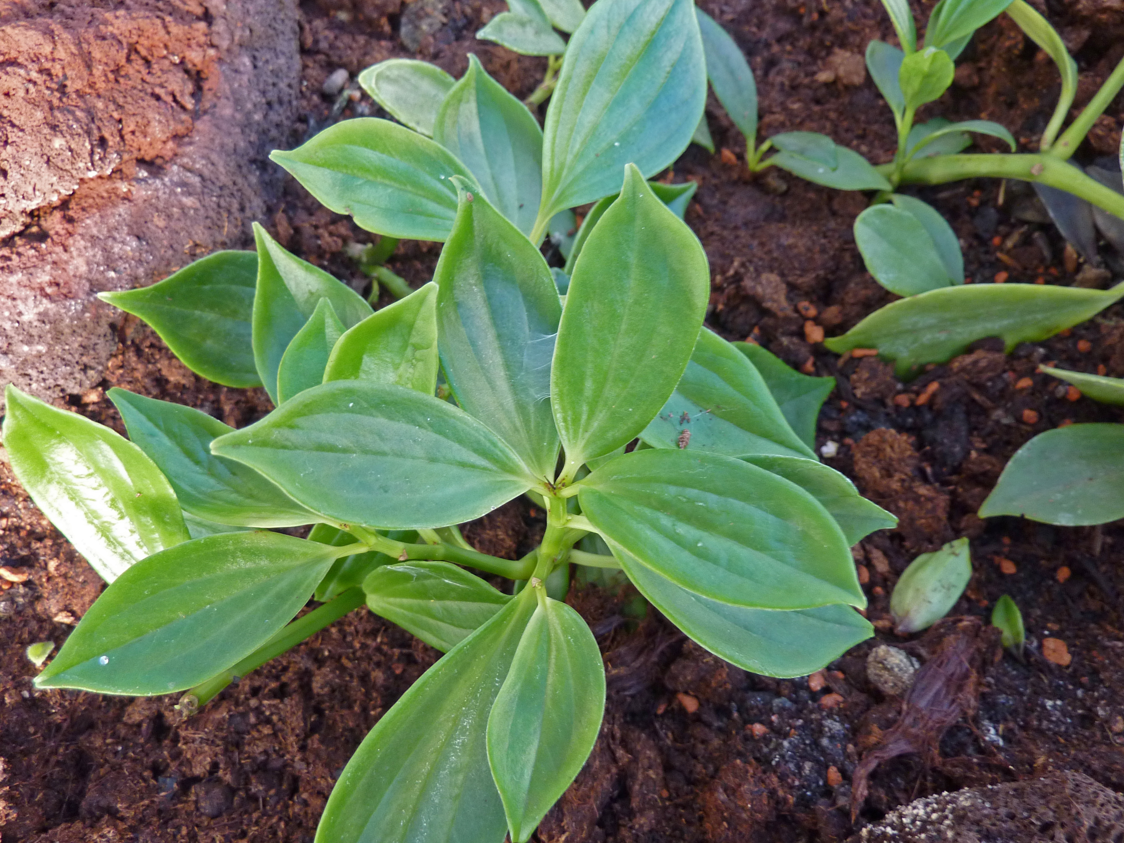 Peperomia weberbaueri in the Botanical Garden, Berlin